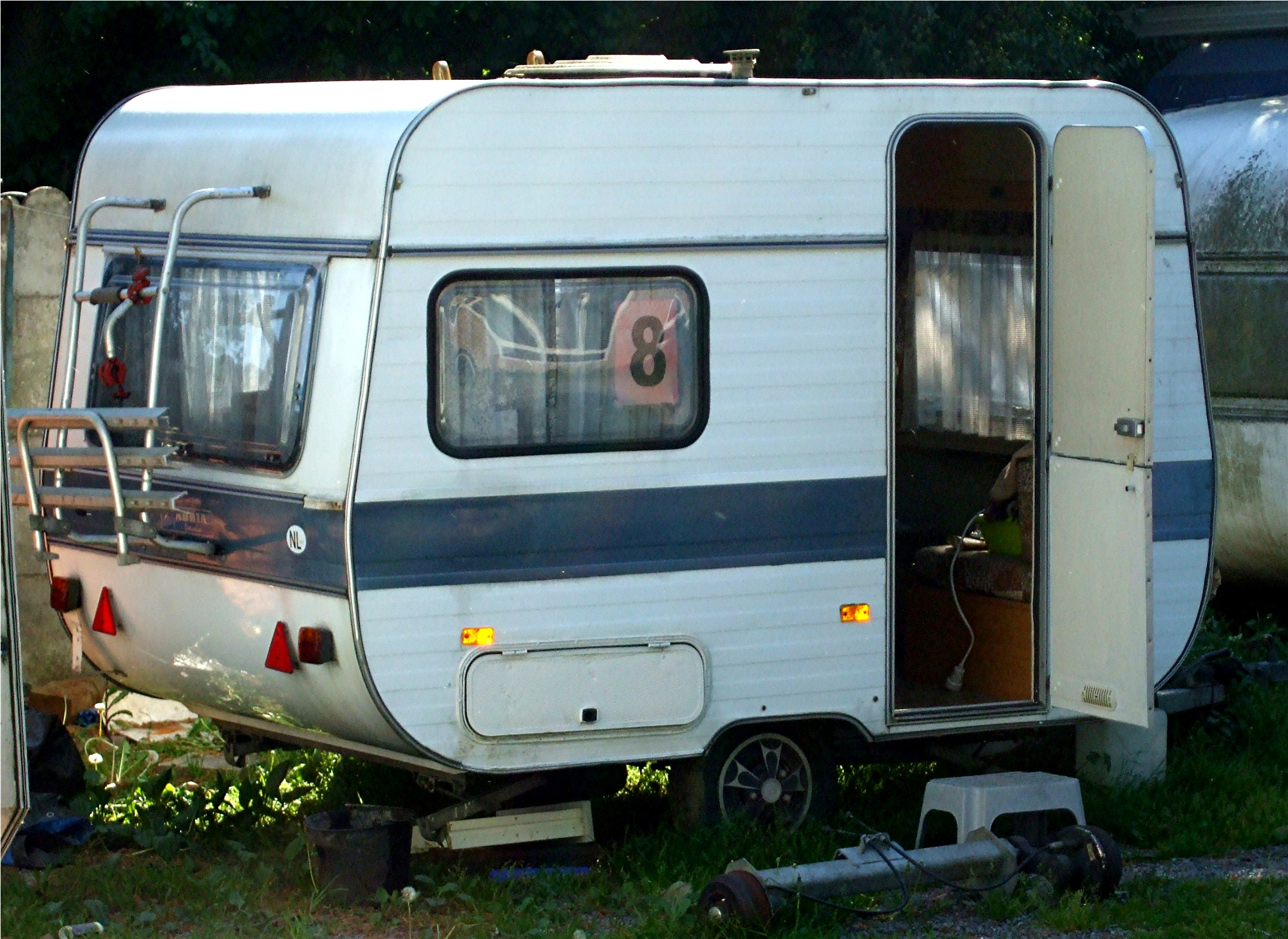 Adria travel trailer